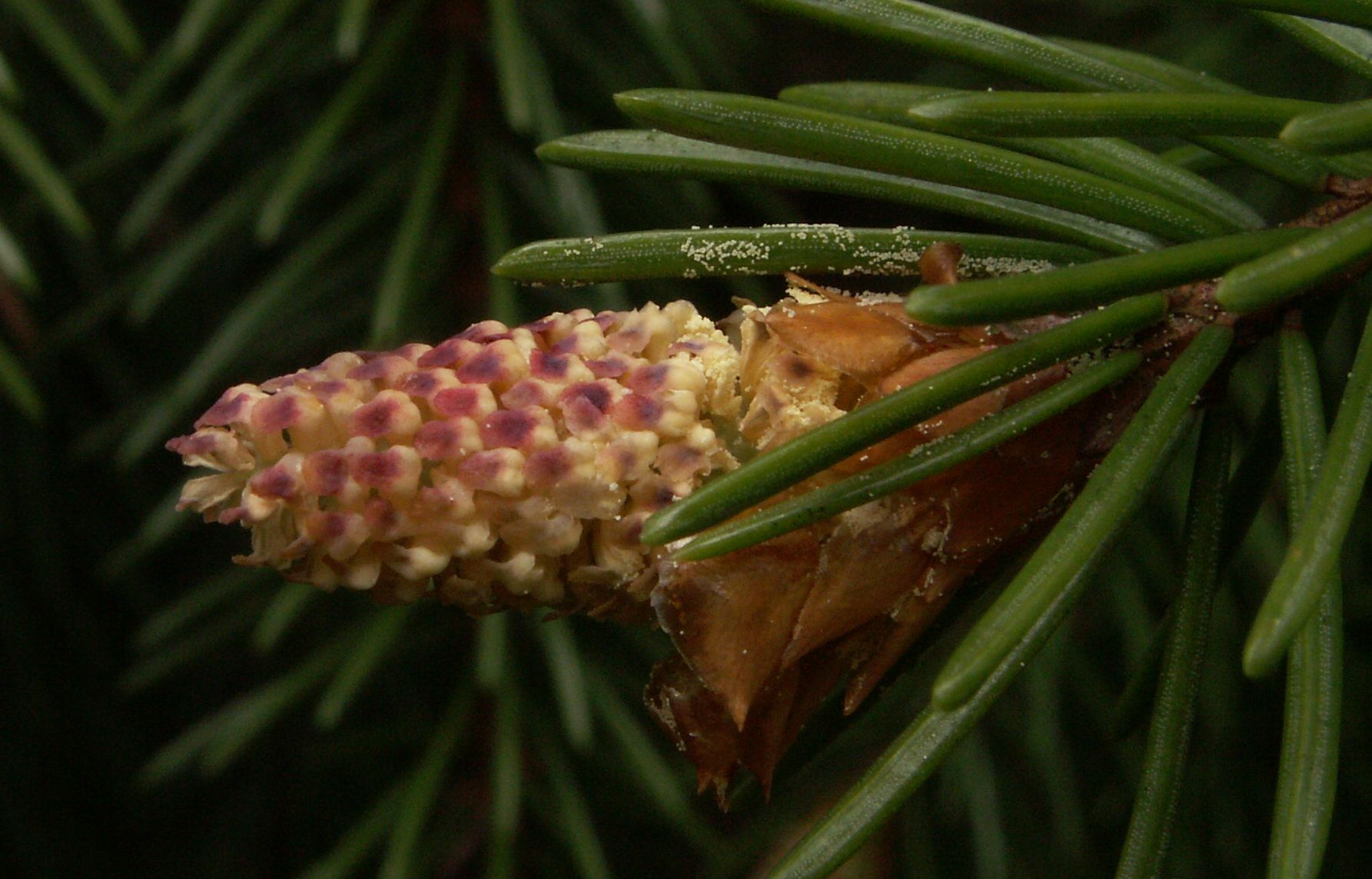 Picea abies, male flowers